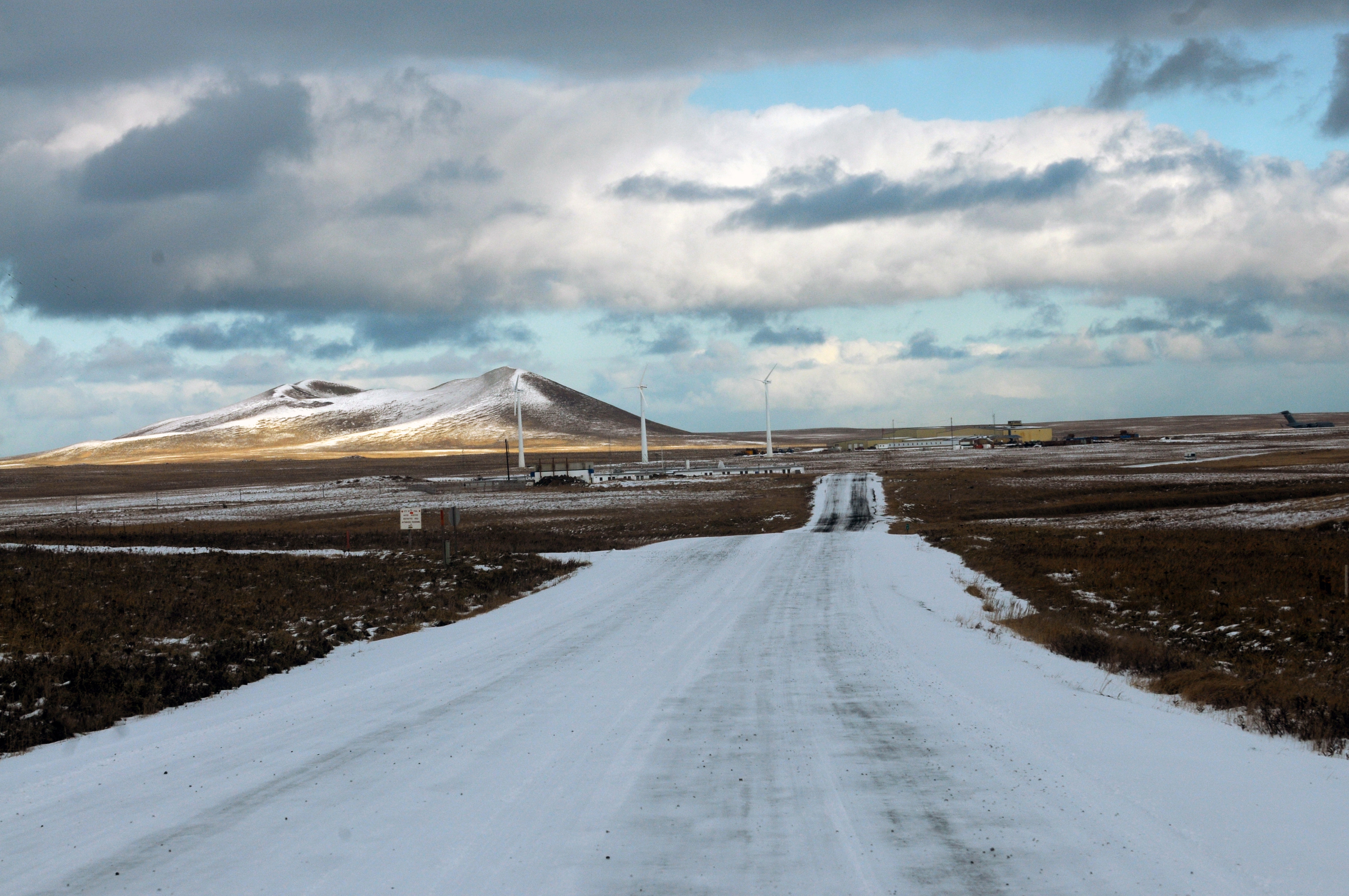 St. Paul Island, Alaska, on Nov. 6, 2010. About 500 people live on the island 775 miles west of Anchorage in the Bering Sea. The Alaska National Guard brought Christmas to the island early Nov. 6 as part of its 54th annual Operation Santa Claus outreach to the state's remote communities. (U.S. Army photo by Staff Sgt. Jim Greenhill) (Released)